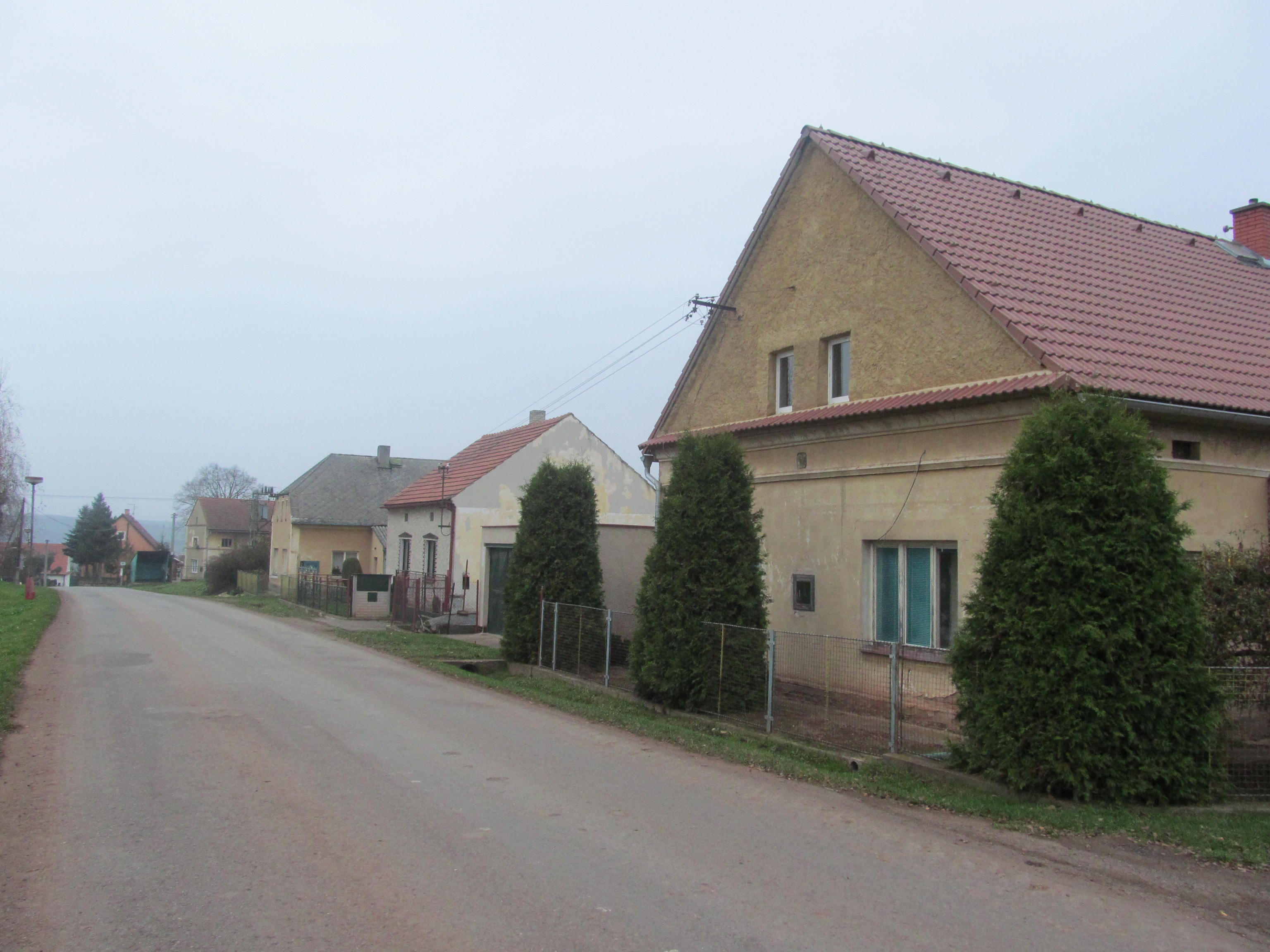 Main street in Stachov